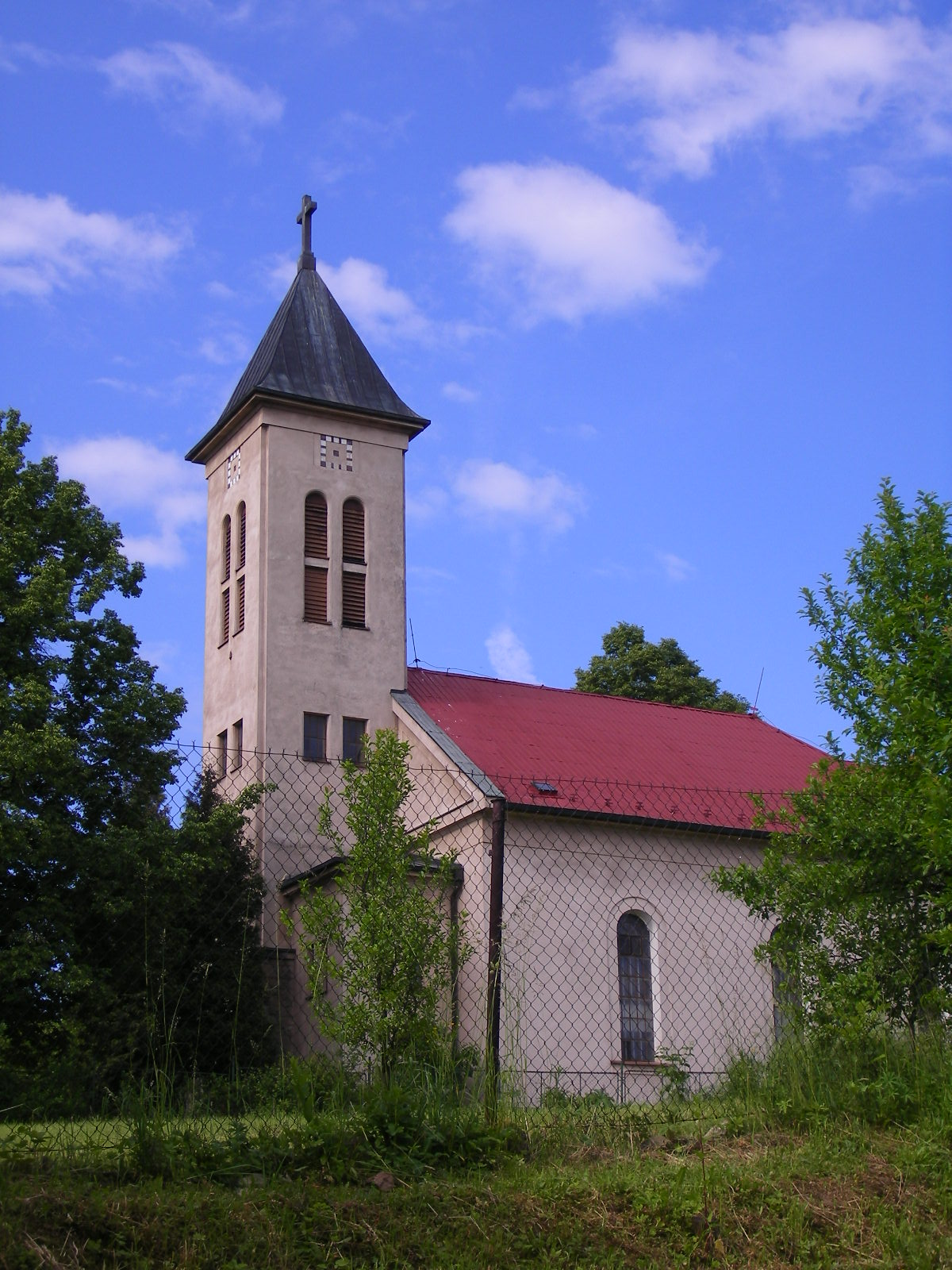 Záturčie - church